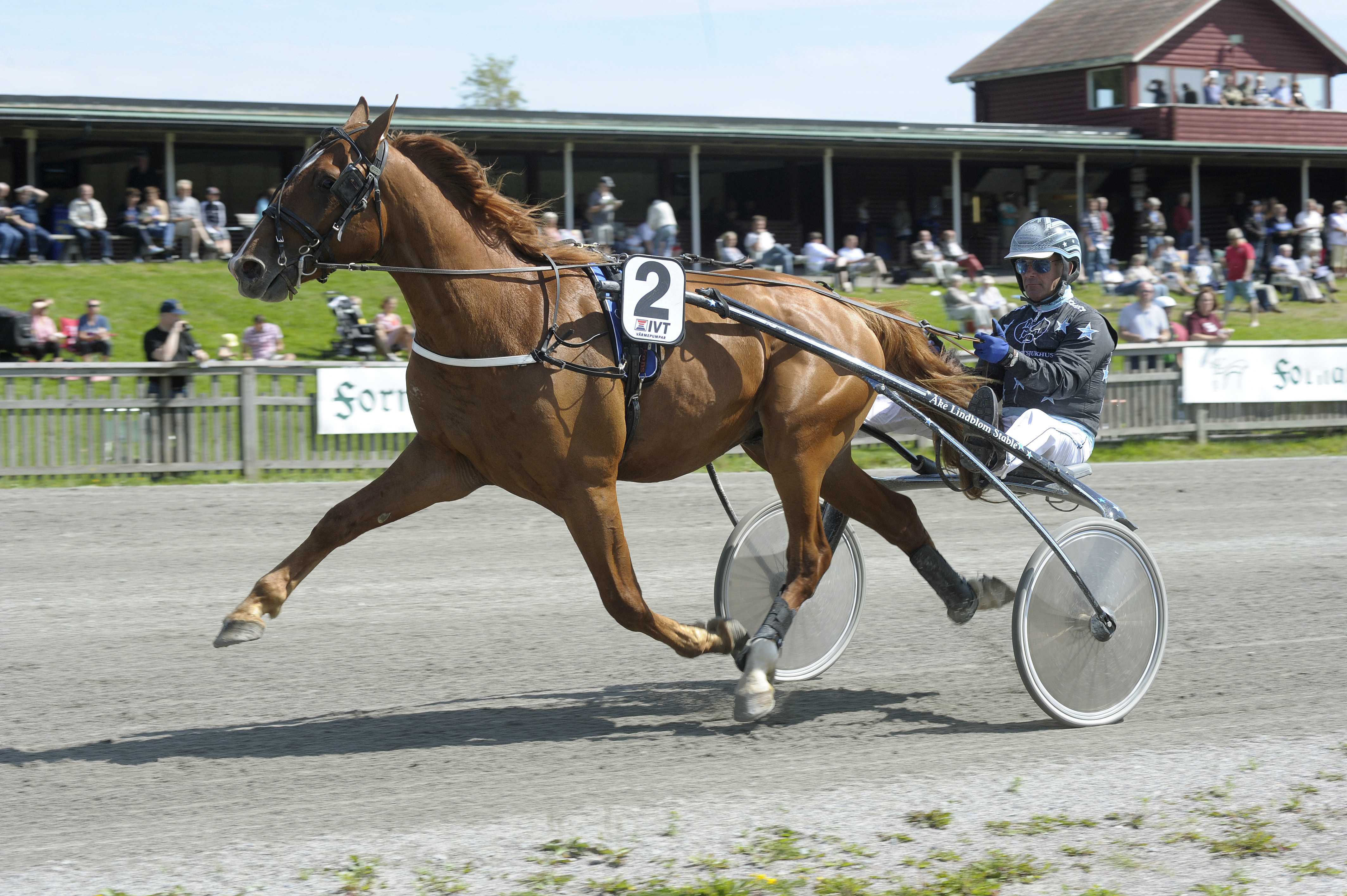 Trotting horse Re Doc and driver/trainer Åke Lindblom. Foto Mats Hansson ALN-Pressbild 20120730 Fornaboda